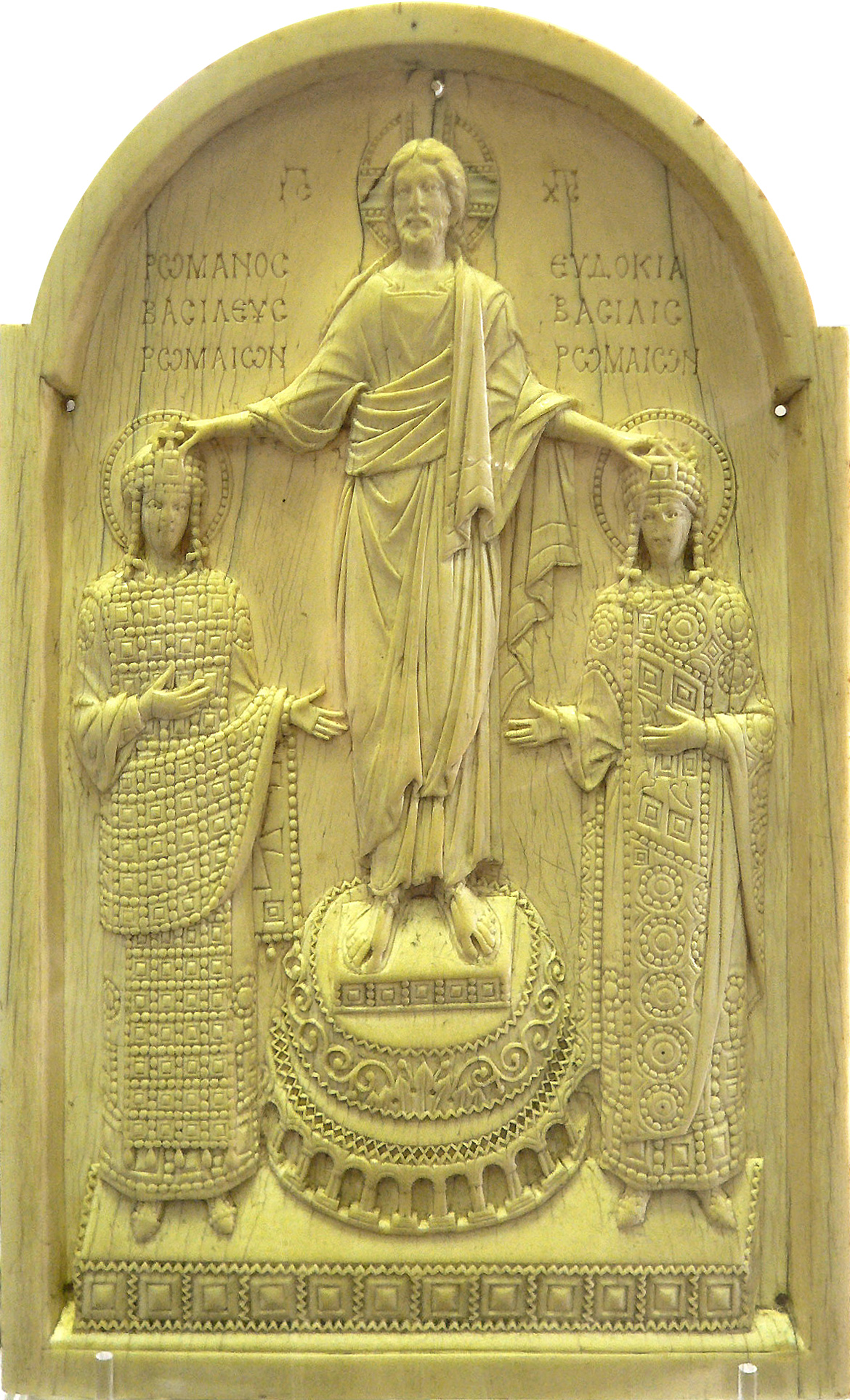 Le Christ couronnant Romanos et Eudoxie Constantinople, ivoire, vers 945-949. H.: 24,6 cm Département des Monnaies, Médailles et Antiques, Bibliothèque Nationale de France [1]. Until 1926, the couple was identified as Romanos IV Diogenes (1030 — 1072) and Eudokia Makrembolitissa. It is now thought to depict Roman II (938 — 963) with his 1st wife Bertha of Italy, who took the name of Eudoxie. They were married in 944-949.